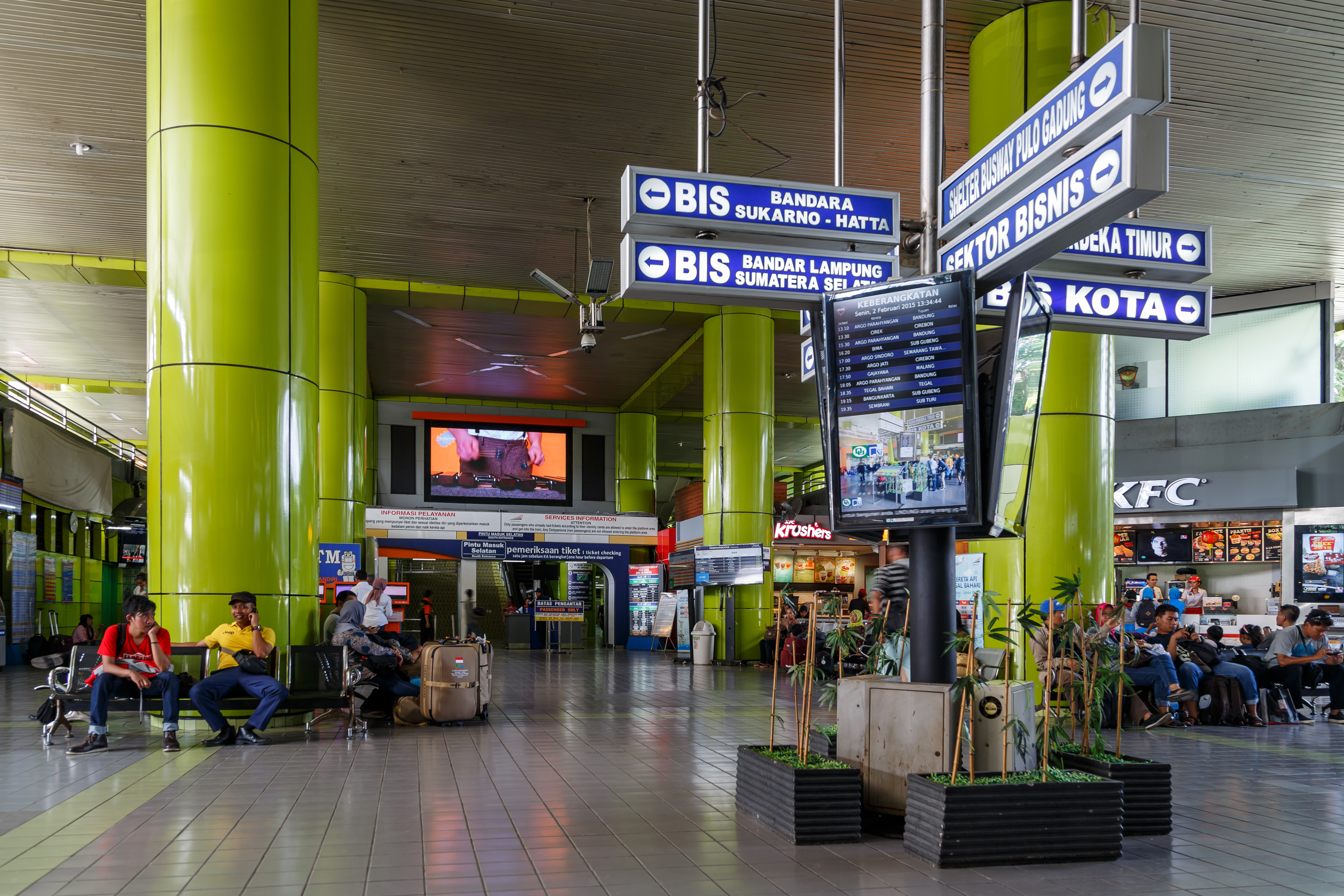 Jakarta, Indonesia: Interior view of Gambir Station.